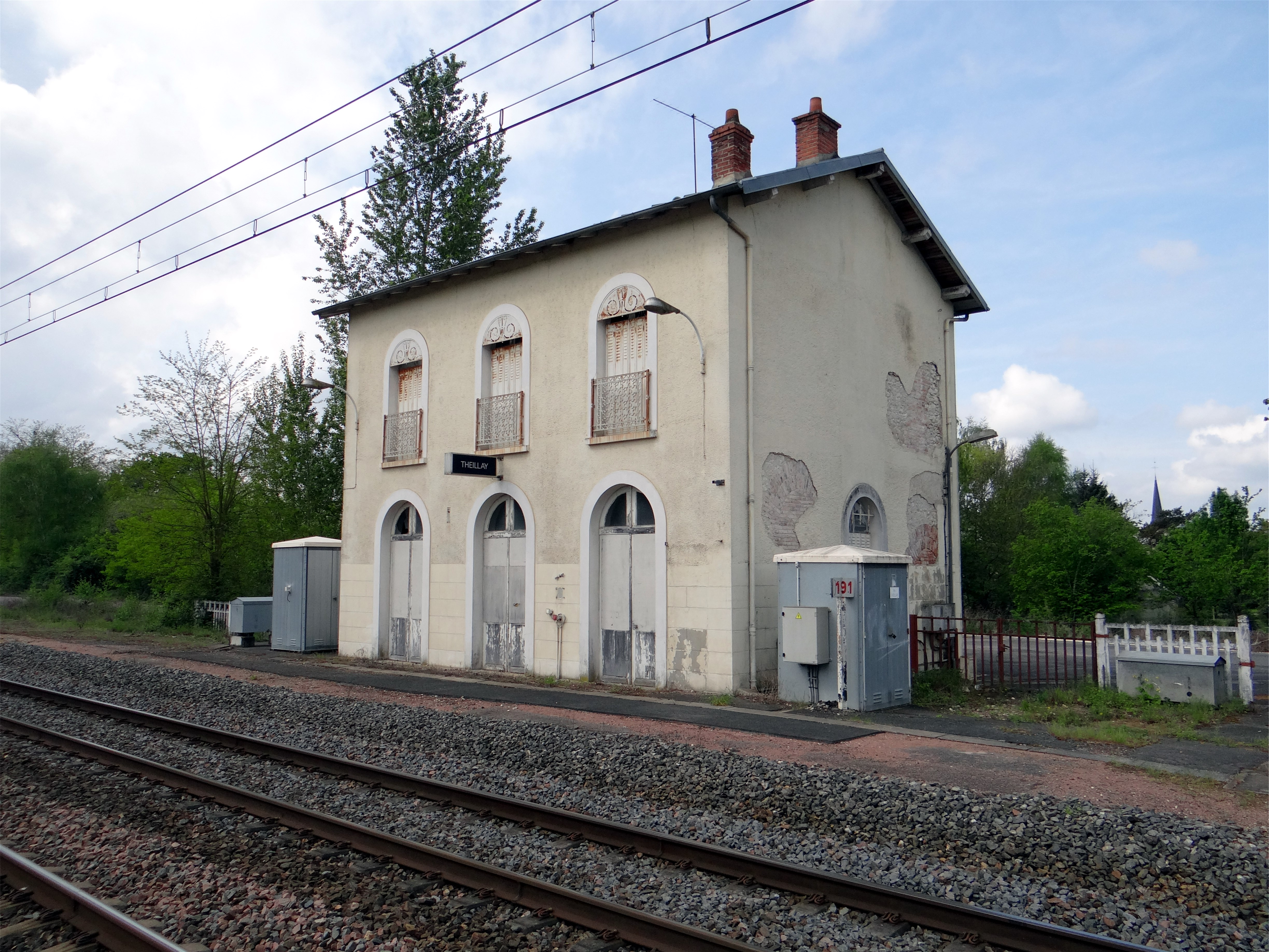 Front of the train station, for the opposite platform, Theillay, Loir-et-Cher, France.